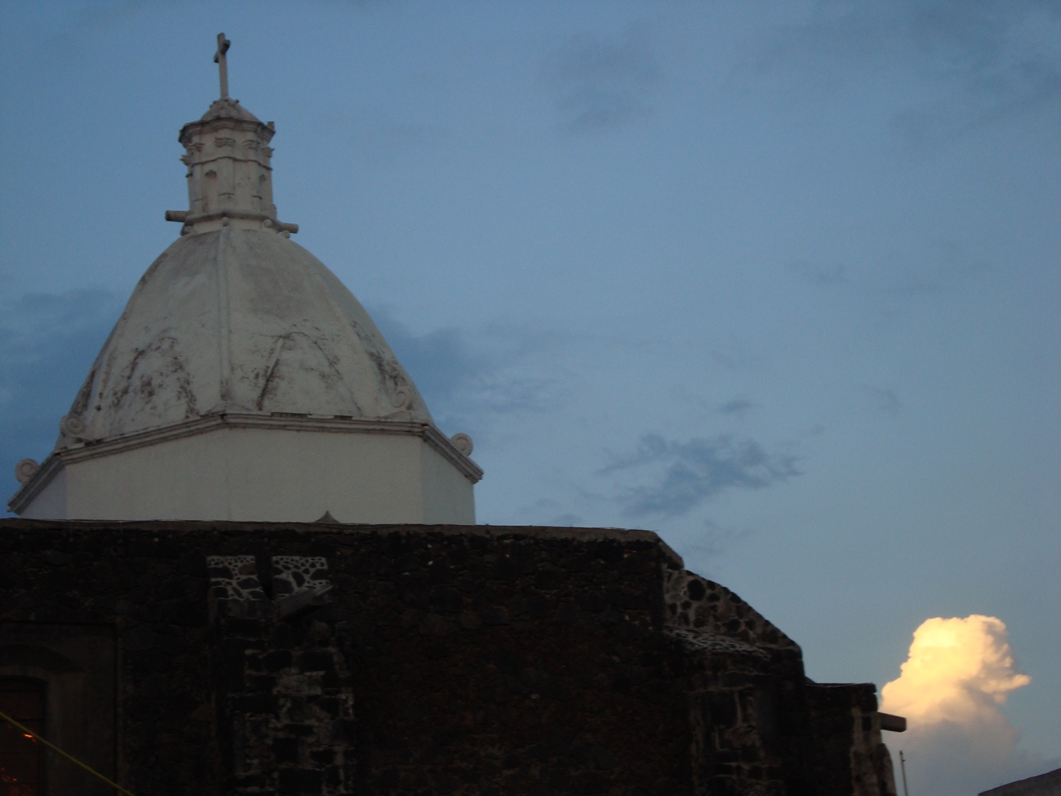 Dome of Temple of San Andrés Apóstol de Míxquic, Mexico.